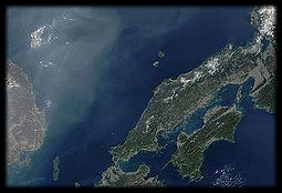 The map of Chūgoku region and Shikoku region by Satelliet.